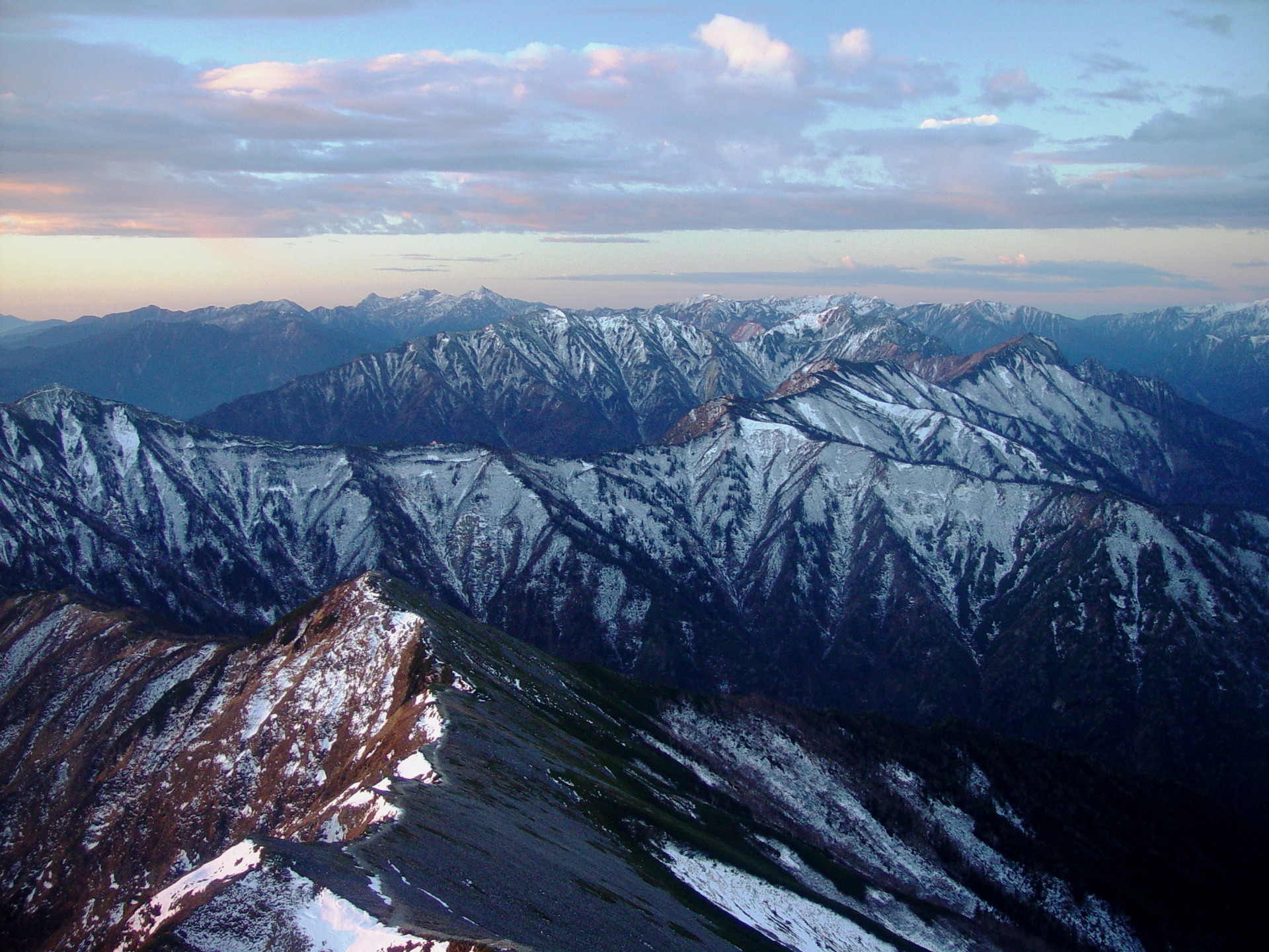 Hida Mountains seen from Mount Kashimayari